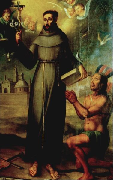 Saint Francis Solanus. South American missionary of the Franciscan Order; born at Montilla, Cordova, Spain, in 1549; died at Lima, Peru, in 1610. His missionary works in South America extended over a period of twenty years, during which time he evangelized the vast regions of Tucuman and Paraguay. Later he was called by his superiors to Lima, where he died among general sorrow.